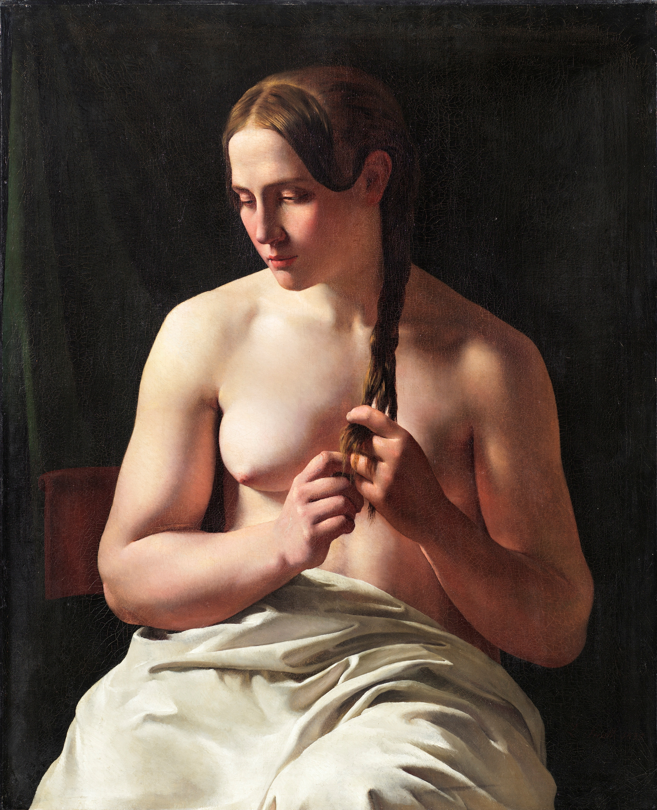 Woman Plaiting her Hair by Ludvig August Smith, 1839, Nationalmuseum Sweden